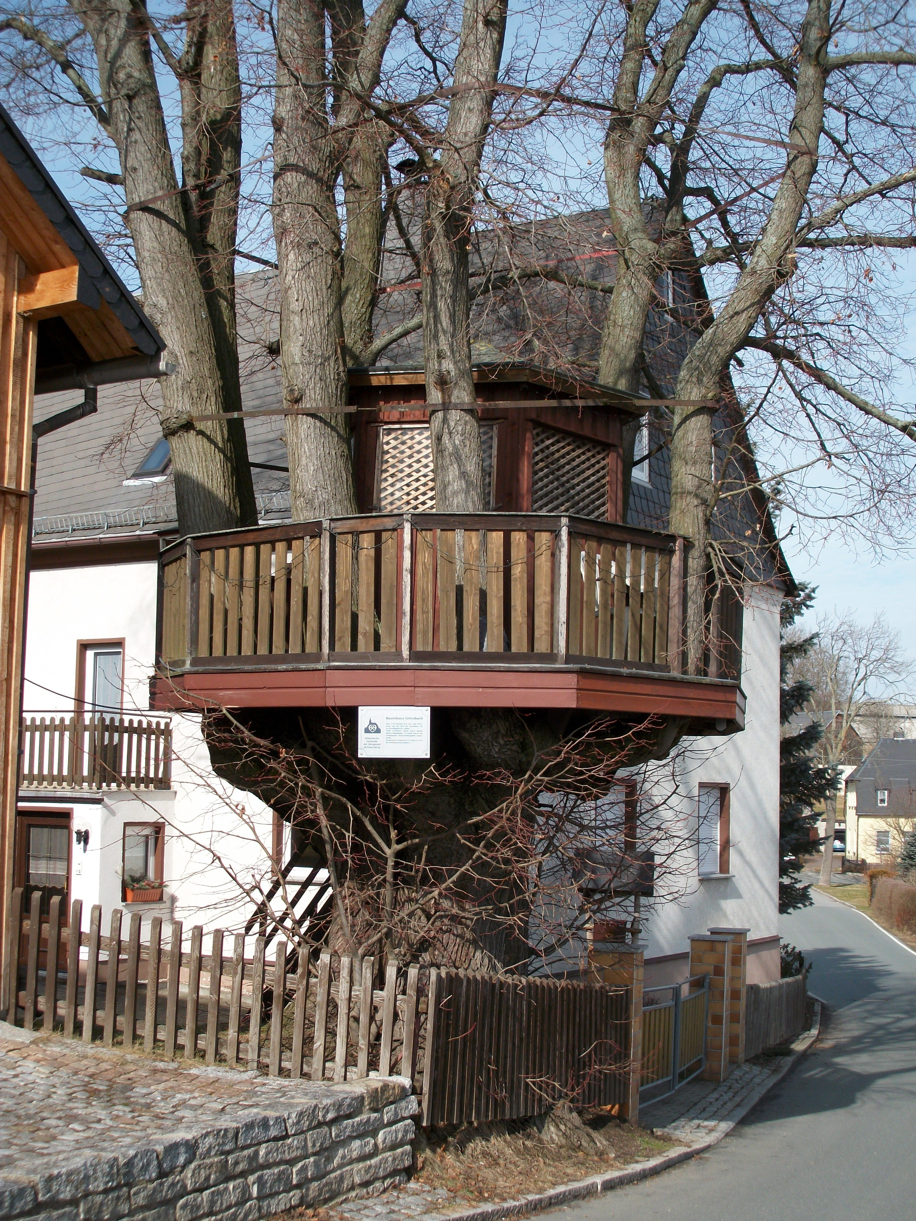 Baumhaus Griesbach